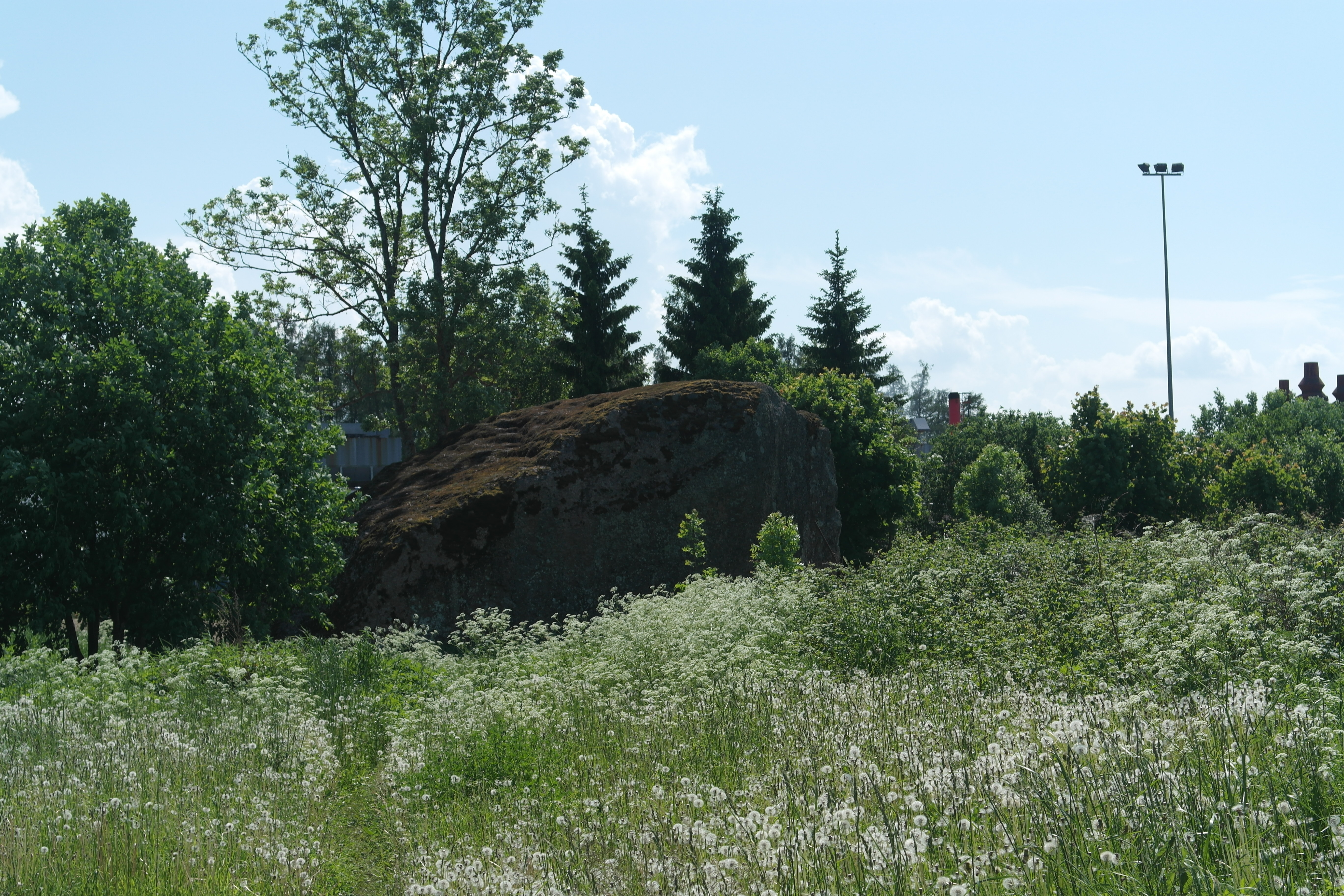 Aruküla boulder